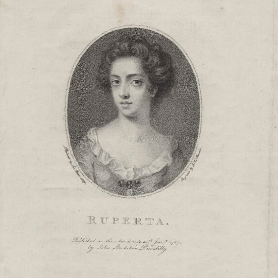 Ruperta Howe by John Keyse Sherwin, after Sir Peter Lely stipple engraving, published 1787